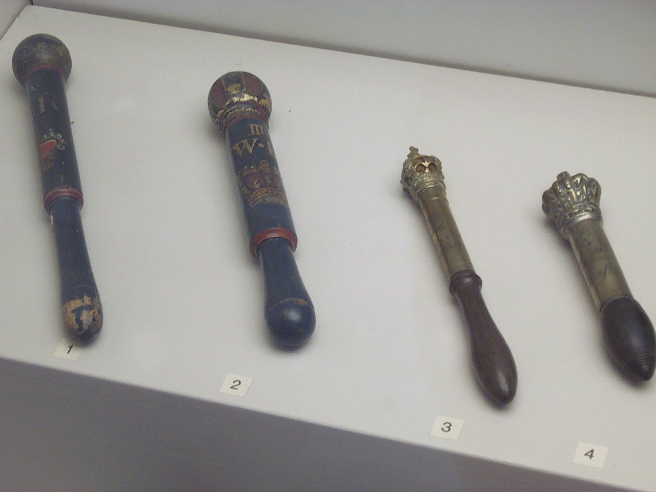 Tipstaves at Bedford Museum. Four tipstaves on display at Bedford Museum, Bedfordshire.